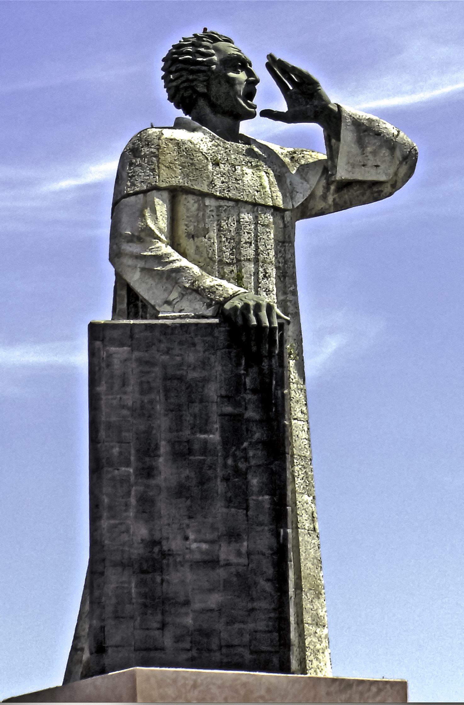 This huge statue is the most remarkable work of art representing Antonio de Montesinos. Montesinos is widely recognized by scholars as the first Human Rights leader in the Americas ("Protector of the American Indigenous People") and for sparking a crisis that created the first set of international laws concerning universal humanity. The statue portrays him as if shouting the words that made him famous: "Tell me by what right of justice do you hold these Indians in such a cruel and horrible servitude?" This statement was part of two homilies he gave in the colony of Santo Domingo on December 21, and 28, 1511, to a congregation full of encomenderos and conquistadors who were responsible for the massacre of millions of indigenous people of the Caribbean. Bartolomé de las Casas, another well-known Human Rights activist, was present there, and it was this sermon that prodded him to a career as a defender of the American Indigenous People. The conspicuous statue is about 50 foot tall (15 meters) and is the most famous work from the celebrated sculptor Antonio Castellanos Basich. The Mexican government donated it to the Dominican People in 1982 and it stands today near to the site wherein 1511 the fearless Montesinos called out evil by its name in two earth-shattering speeches. Montesinos later moved to other regions of the Americas (even to Virginia) on his Human Rights crusade.